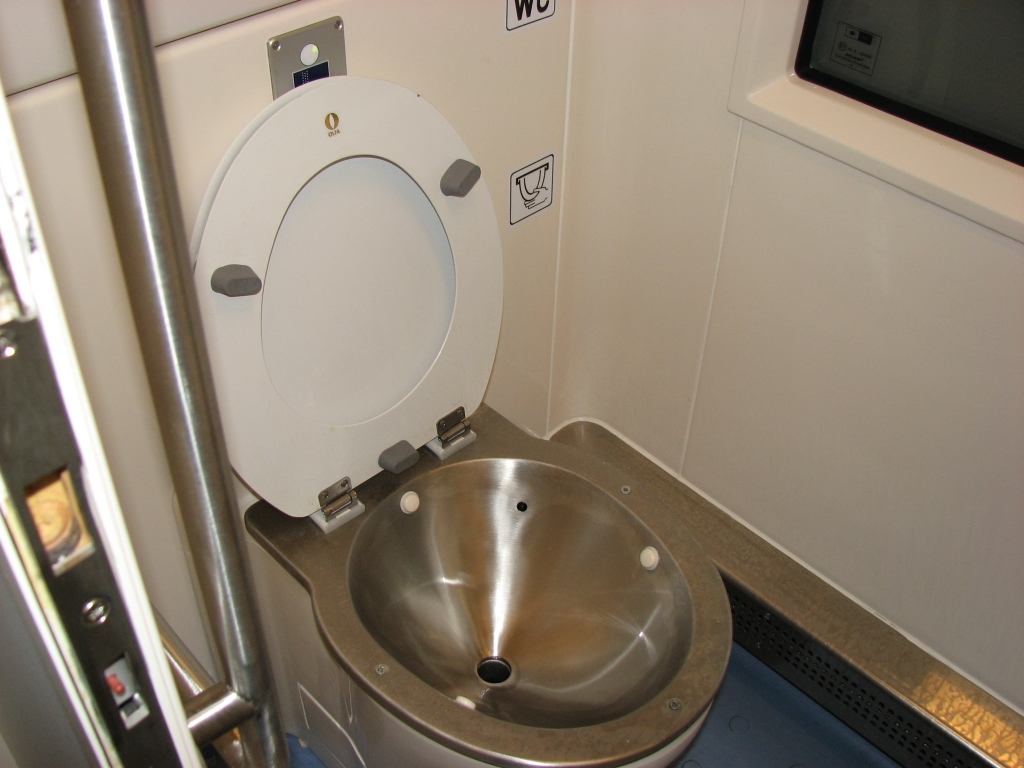 MÁV IC3 passanger coaches